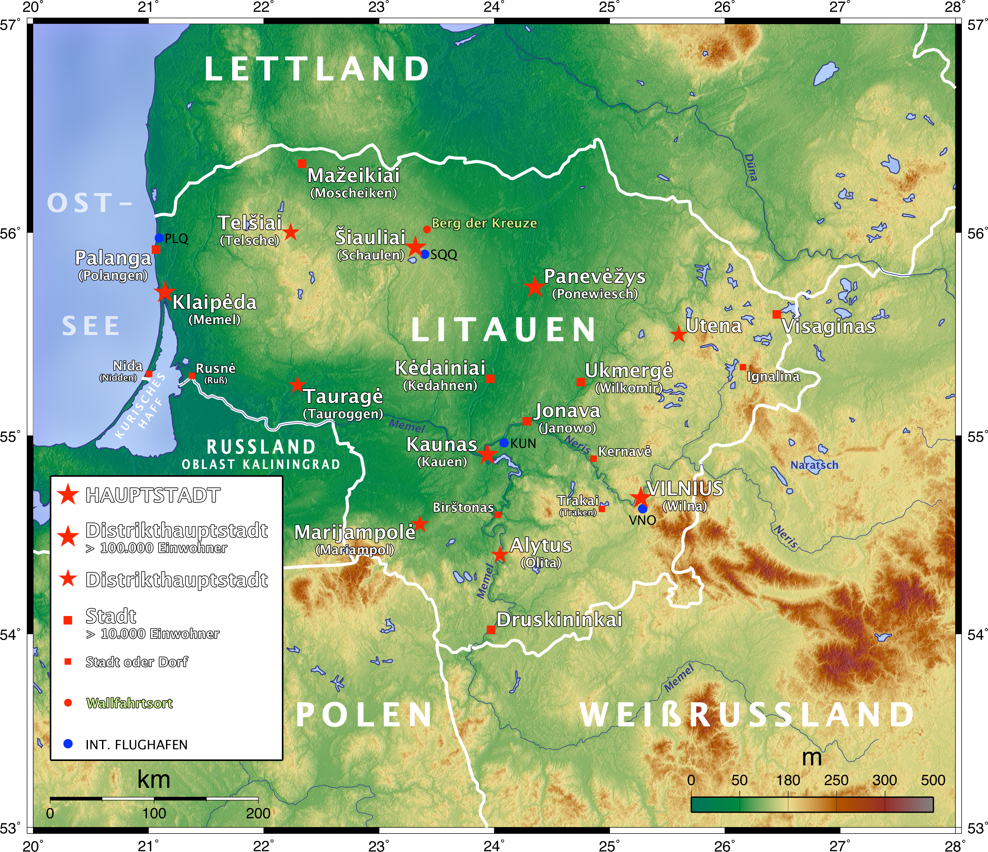 High resolution topographic map of Lithuania with German labels